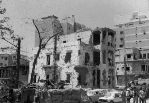 PLO office in sidon lebanon 1982 משרדי אש"ף בצידון לבנון 1982 התמונה צולמה על ידי עמוס א.